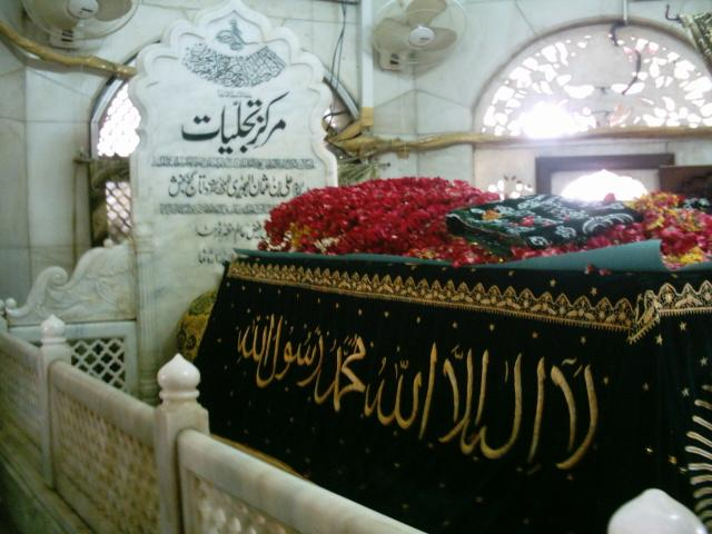 A closeup of the grave Picture taken by Pale blue dot on June 12, 2004.